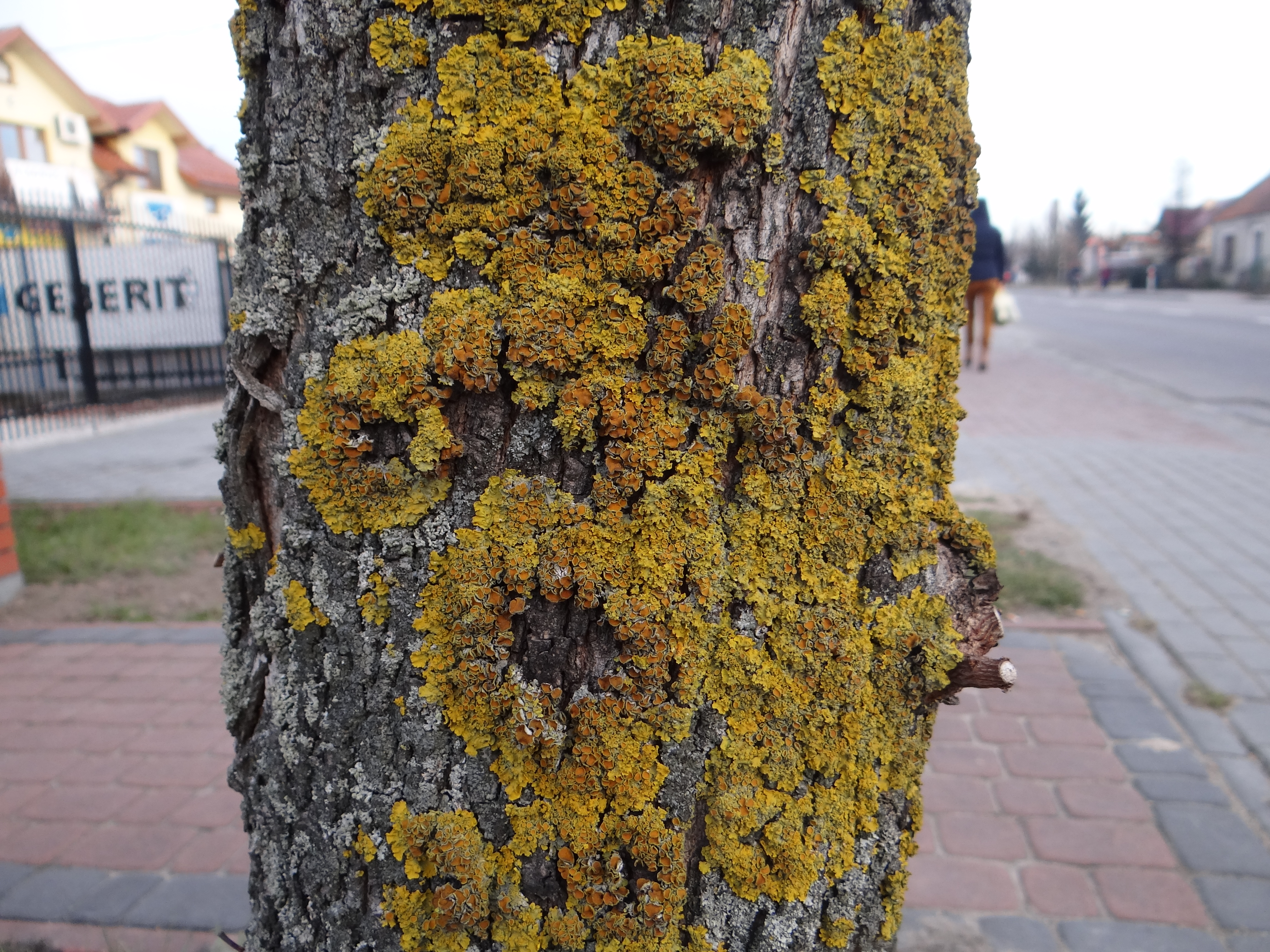 Xanthoria parietina (location: Poland, Szczucin)